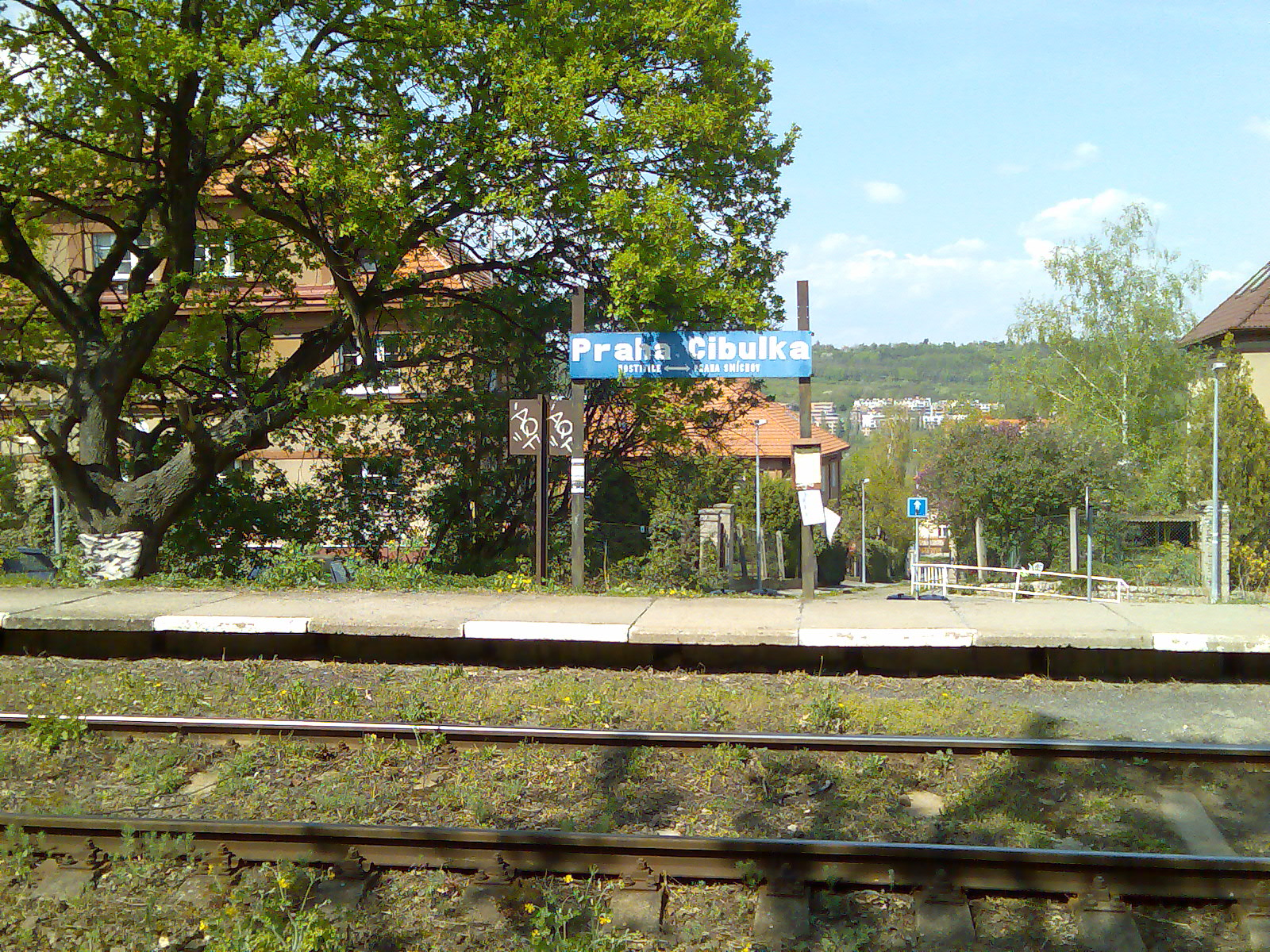 Railway Station Praha-Cibulka